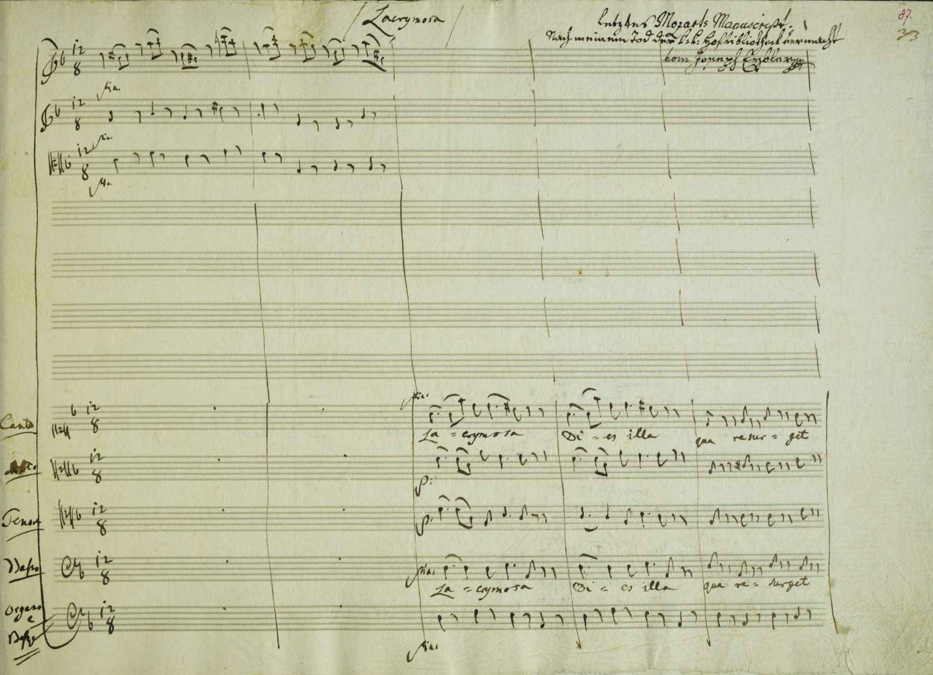 K 626, Requiem mass in D minor, Wolfgang Amadeus Mozart. Austrian National Library, Codex 17561b, folio 87/33 (recto). Lacrymosa, bars 1-5, scored for 2 violins, viola, SATB chorus, and continuo bass. Written the hand of Wolfgang Amadeus Mozart, aside from the posthumous addition to the manuscript by Georg Nikolaus Nissen (the text added in the top-right hand corner, in the margin and overlapping the top stave). This page is not actually the last page of the manuscript; either the following page, folio 87/33 (verso) or folio 99/45 (recto) are thought to be the last pages Mozart inscribed, depending on whether Mozart composed the Lacrymosa or Hostias last. The Hostias is complete to the end, whereas the Lacrymosa breaks off after 8 bars.